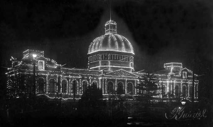 Francis Gabriel photo of Jubilee Exhibition Building from 1920.